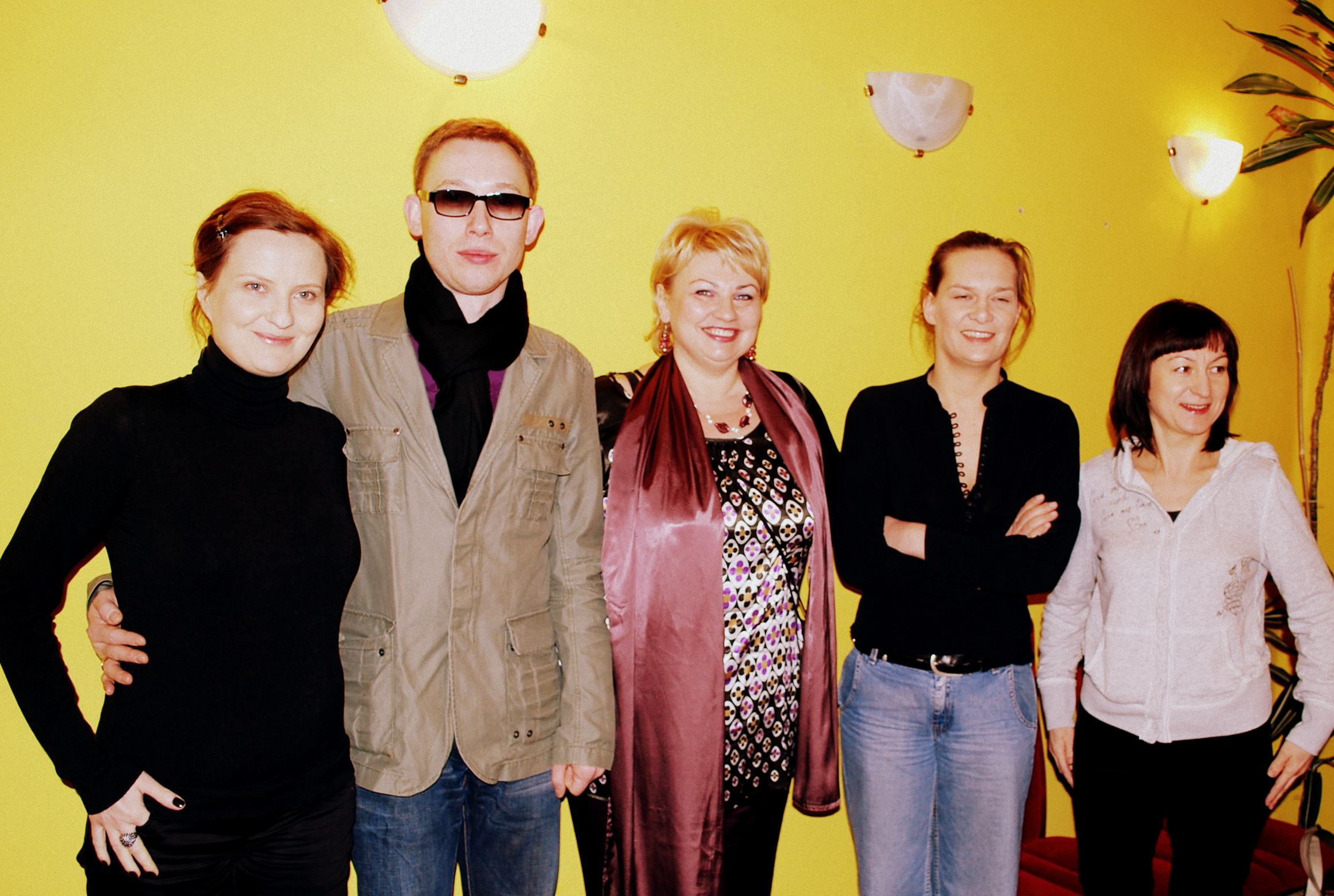 ARLEKINADA 2009 people from left: Izabela Kuna, Rafał Mohr, Elżbieta Piniewska, Maria Seweryn and ?